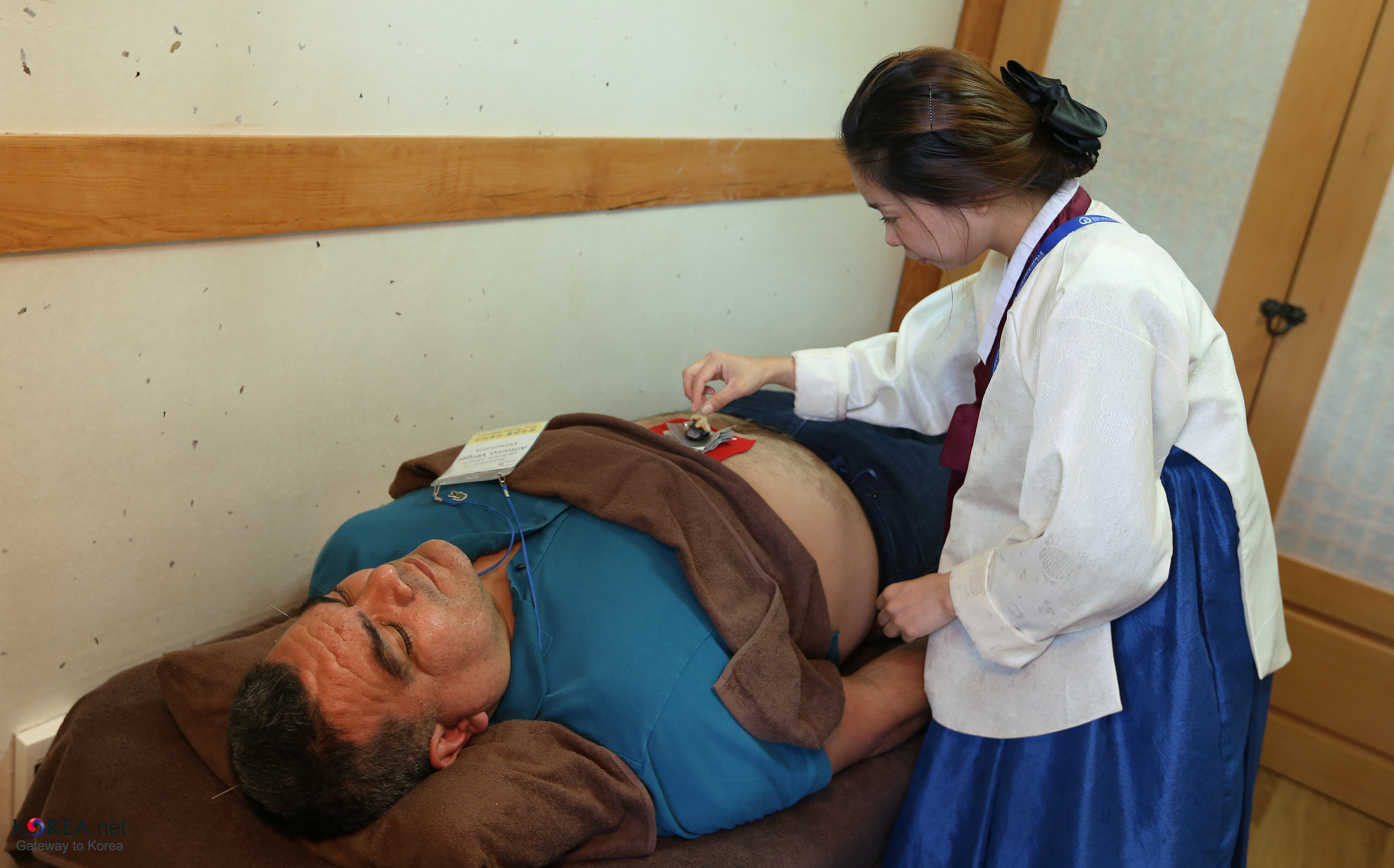 World Traditional Medicine EXPO in Sancheong, Korea 2013 The World Traditional Medicine Fair & Festival is the world's first fair dedicated to traditional medicine. It is a place to exchange information and products for enhancing human health. The 2013 World Traditional Medicine Fair & Festival will celebrate the 400th anniversary of the publication of Donguibogam (Korean ancient medical book) and its registration on UNESCO Memory of the World program. The event will take place at Donguibogam Village and Korean Traditional Medicine Town in Sancheong-gun. 2013.09.27. Sancheong-gun, Gyeongsangnam-do Ministry of Culture, Sports and Tourism Korean Culture and Information Service ( JEON HAN 2013 산청 세계전통의약엑스포 산청군, 경상남도 문화체육관광부 해외문화홍보원 코리아넷 전한